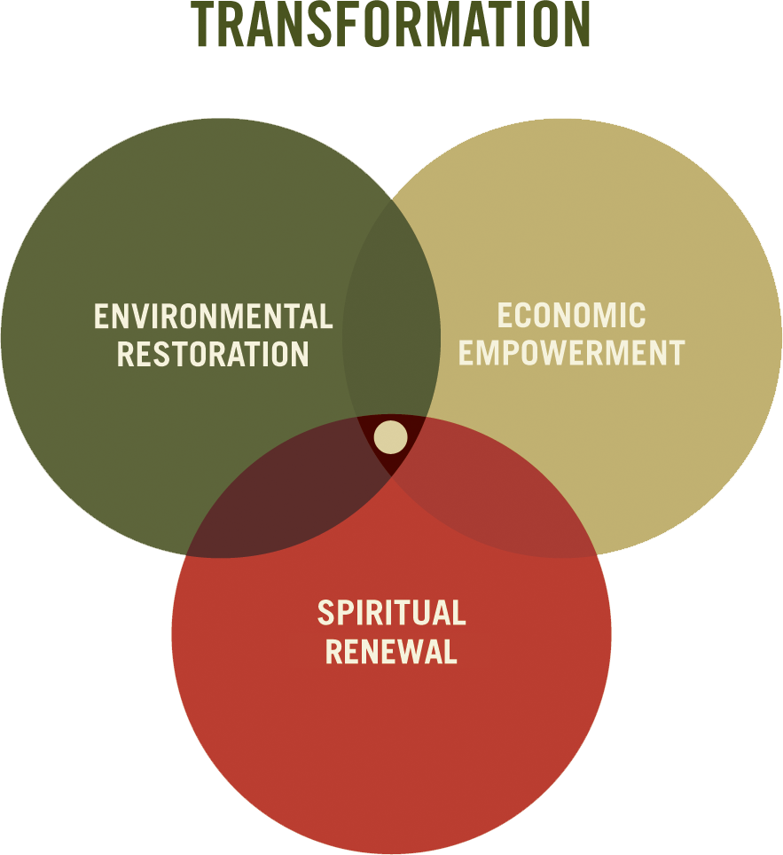 Plant With Purpose Van Diagram